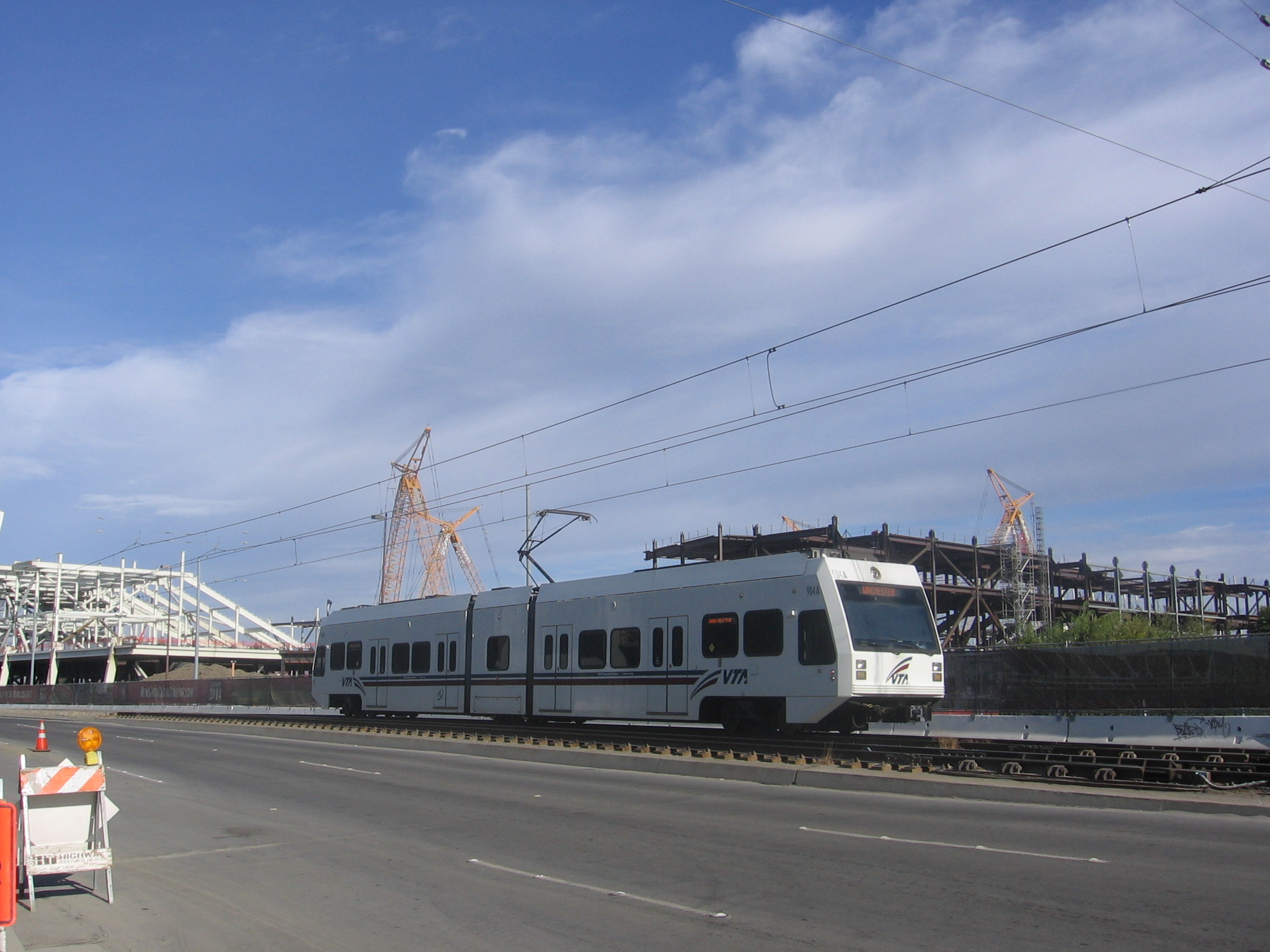 The Great America (VTA) light rail station on Tasman Drive in Santa Clara, California, USA.